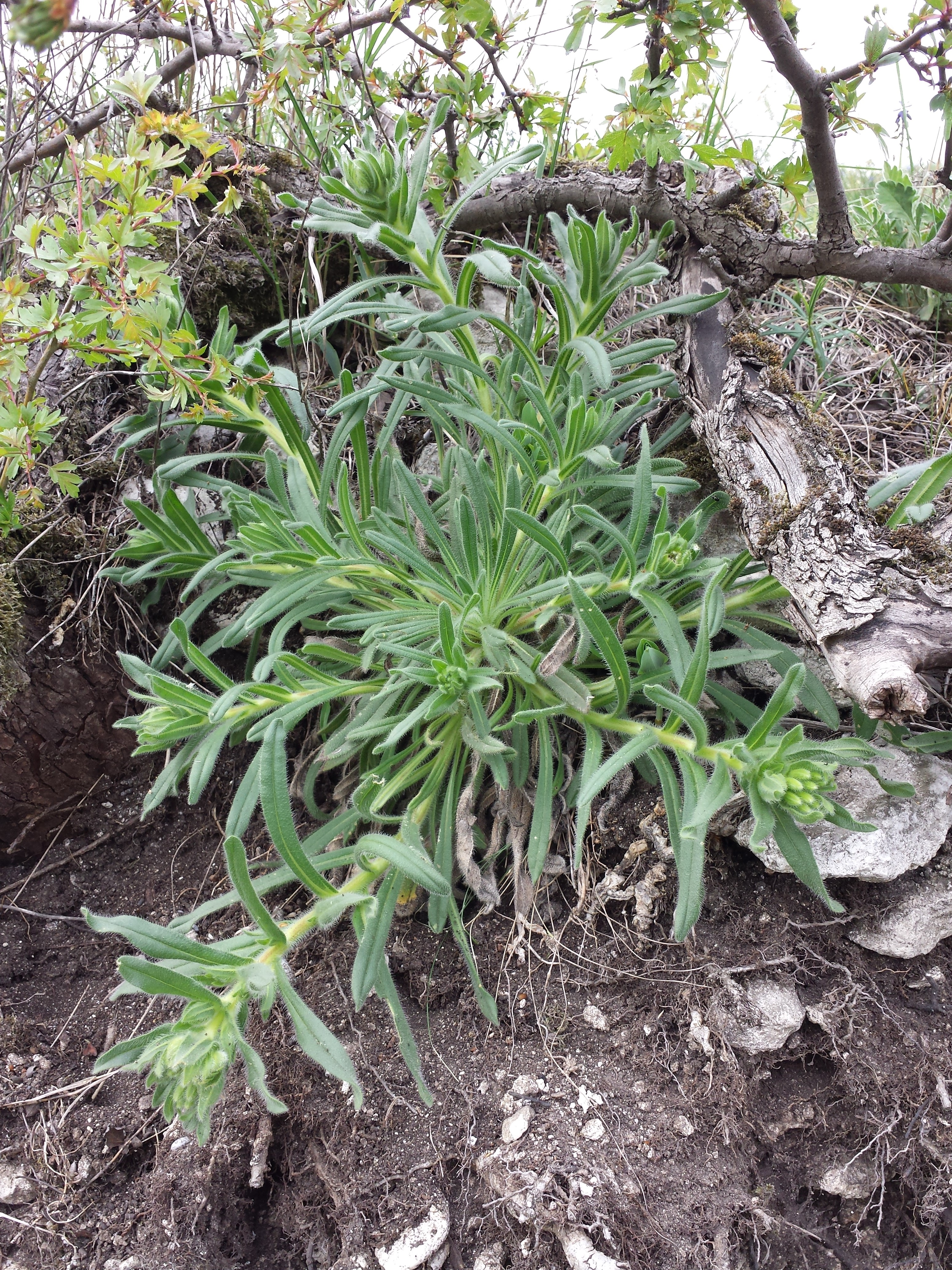 Habitus Taxon: Onosma arenaria (sensu Fischer et al. EfÖLS 2008 ISBN 978-3-85474-187-9; det. M. A. Fischer 2014-04-05) Location: Windener Kirchberg, Winden am See, district Neusiedl am See, Burgenland, Austria - ca. 160 m a.s.l. Habitat: dry grassland